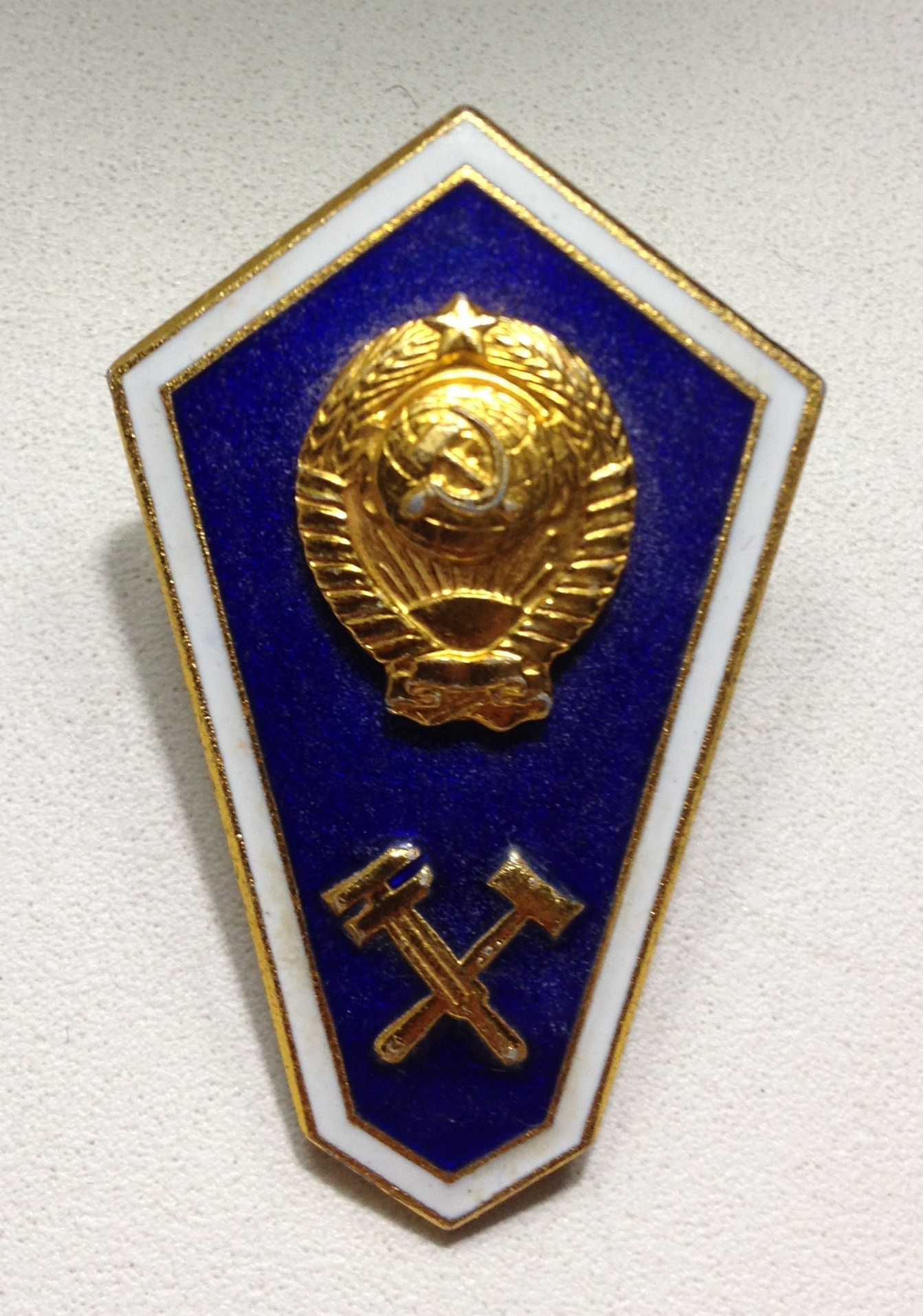 The breast badge awarded to graduates of an engineering/ technical middle school (tekhnikum) in the USSR.